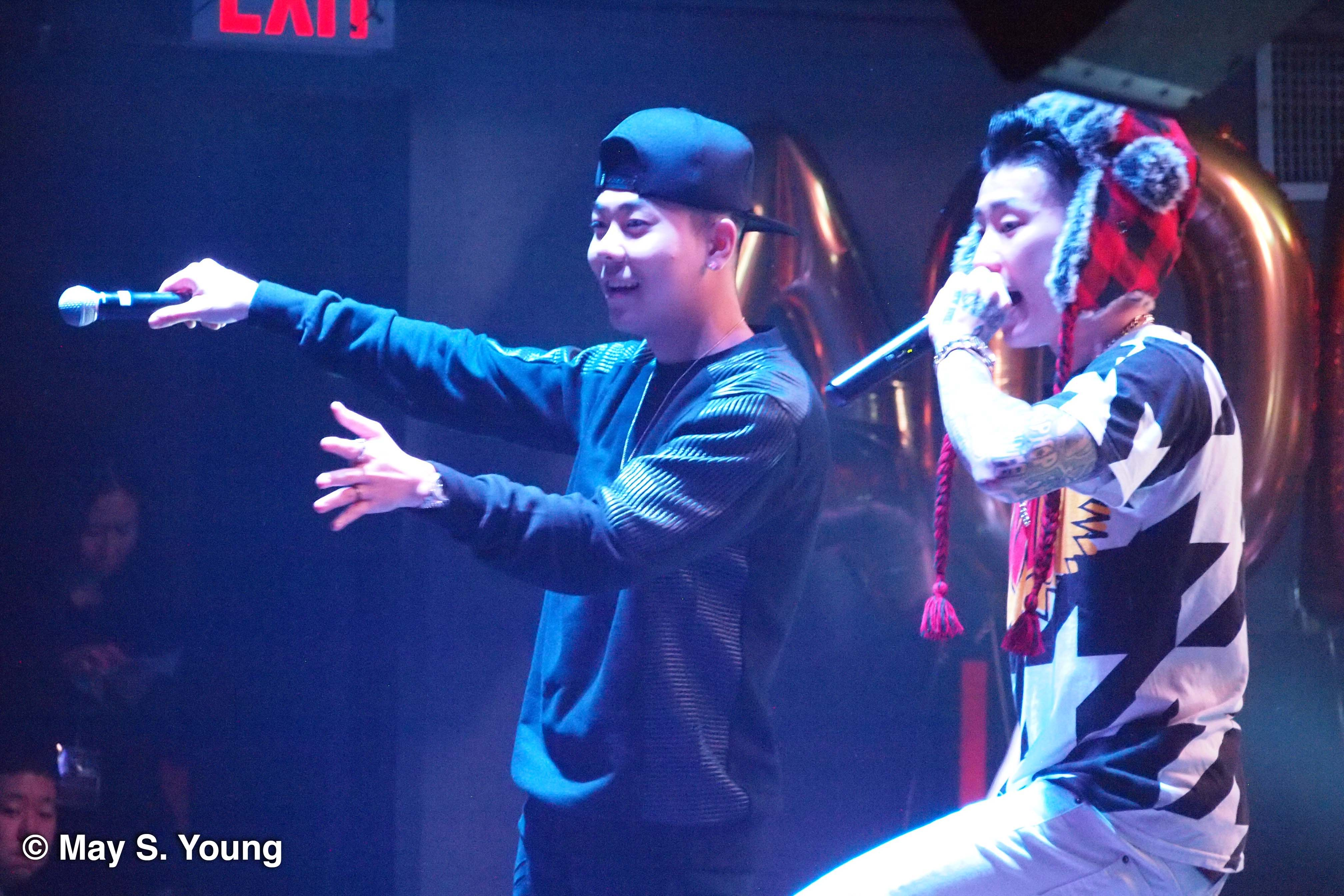 OLYMPUS DIGITAL CAMERA, AOMG's Loco and Jay Park